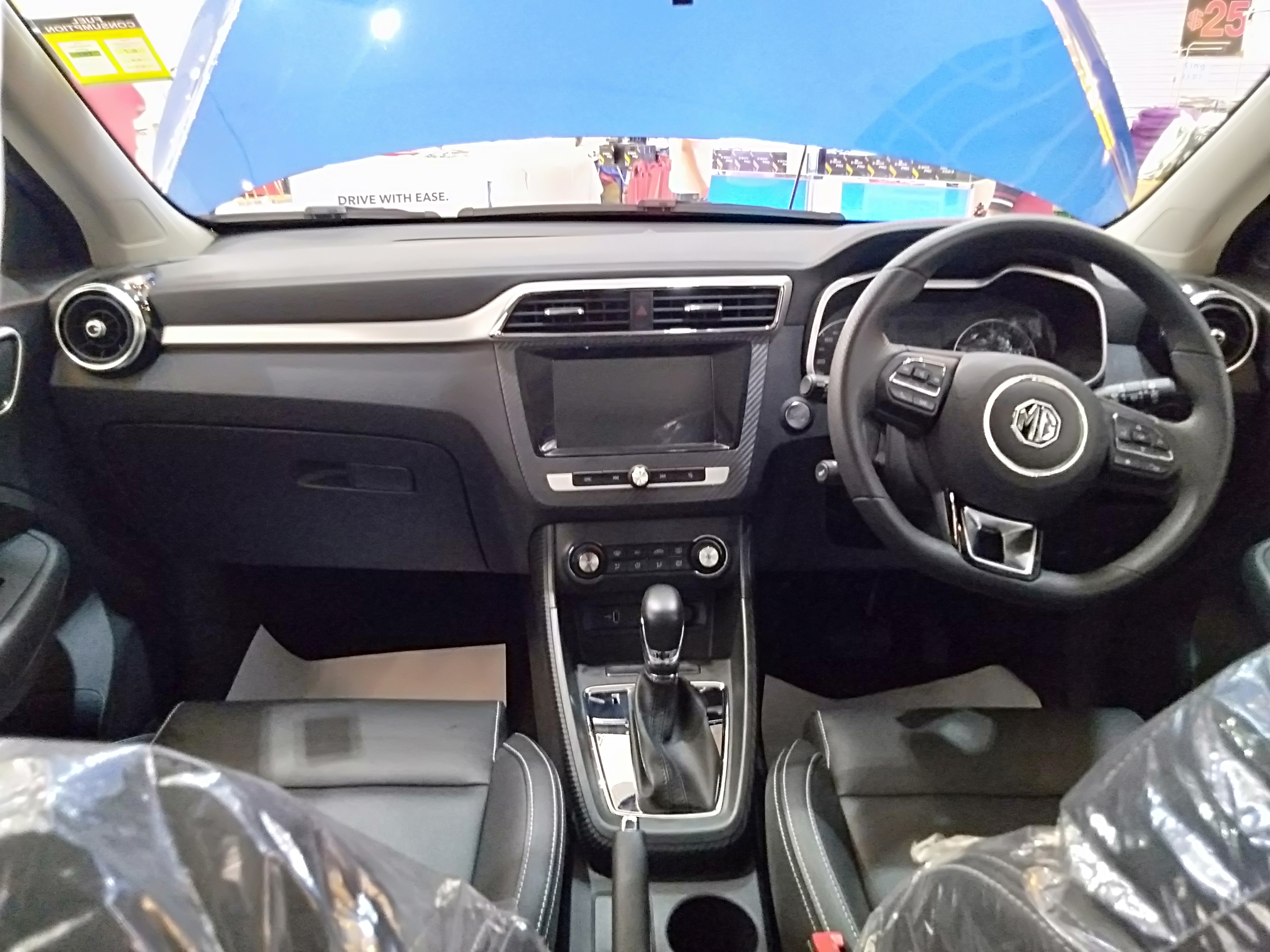 2020 MG ZS SUV 1.5 COM Blue interior. Photographed at Rimba Point Shopping Centre, Rimba Point, Brunei.